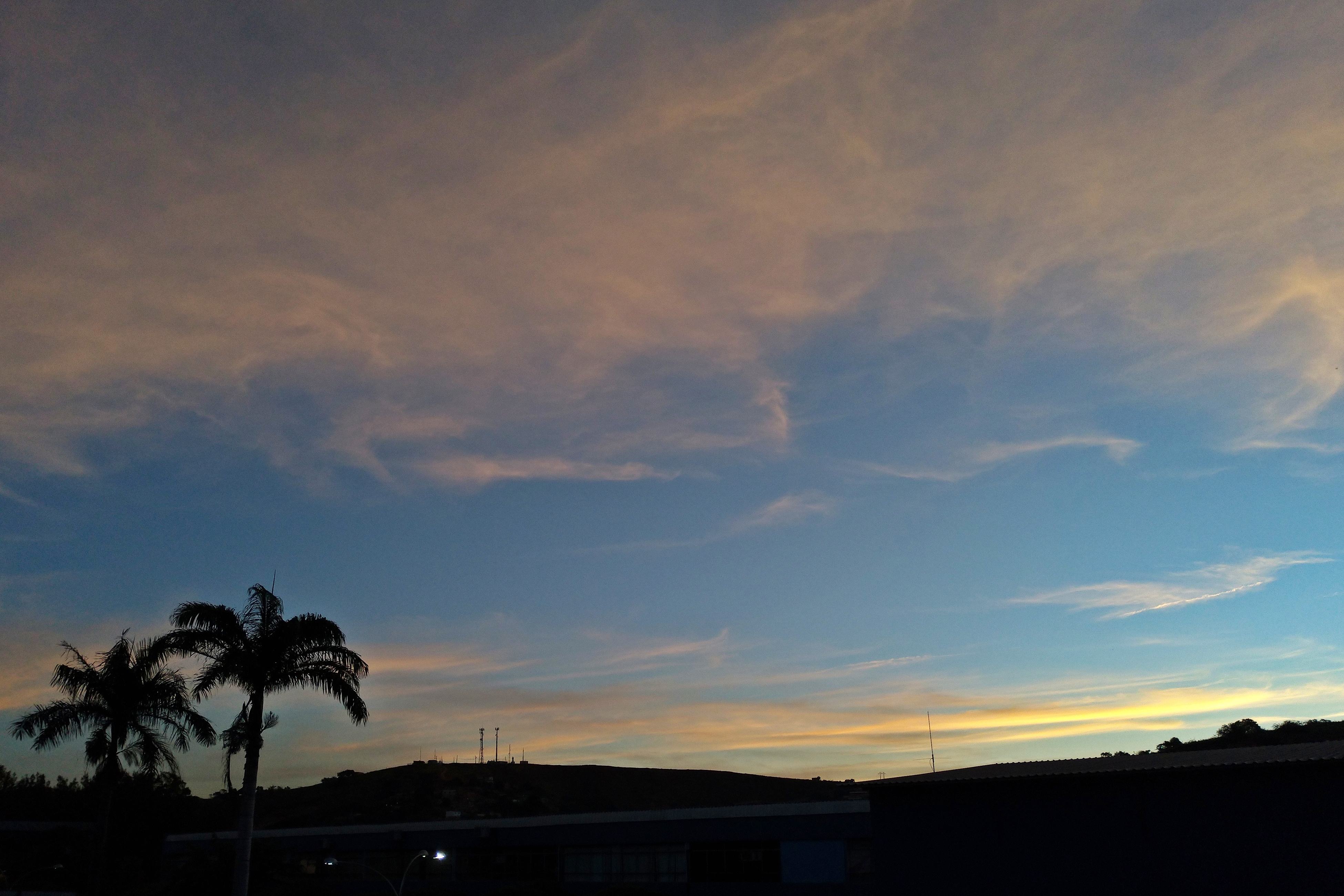 Cirrus clouds at dusk in Coronel Fabriciano, Minas Gerais, Brazil.